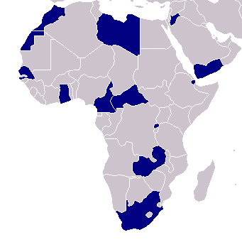 Operators of the Ratel armoured combat vehicle.